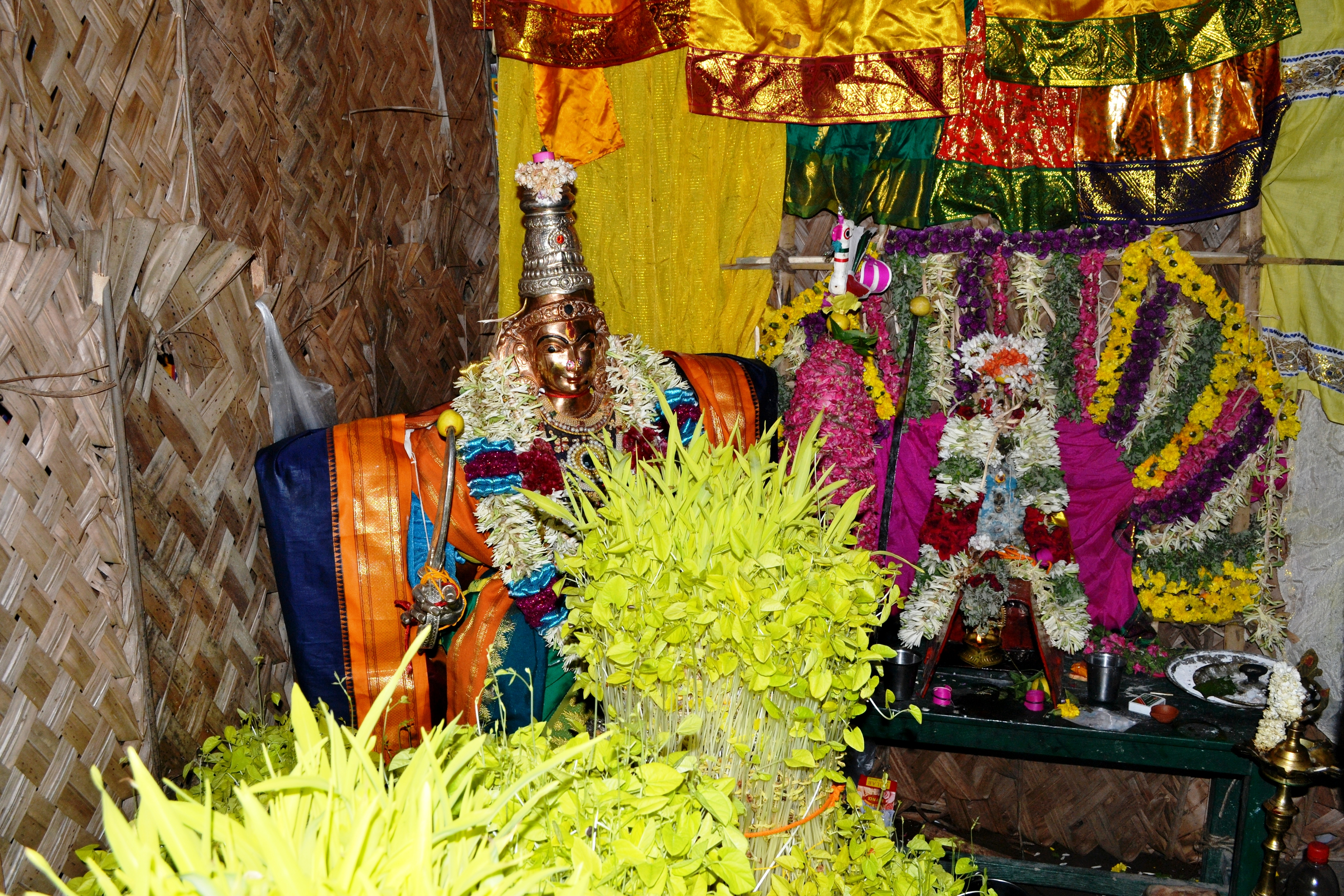 Mulaipari is a women's ritual celebrated in Village Goddess Festivals in Tamil Nadu. The ritual is celebrated to get a rich harvest and plenty of rain. Especially, the Village Goddess Mariyamman is in her most original form a Rain Goddess. Normally, the Mulaipari procession takes place on the 9th day after planting the Mulaipari ( nine germinated grains, planted by a Mulaipari expert, usually an elderly lady). This photo has been taken in the country: India